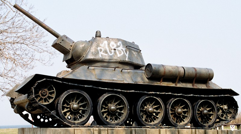 T-34/76 Mod.43 in Gdansk - Westerplatte, Poland